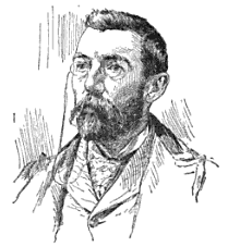 drawing of artist Frank Ver Beck from Munsey's Magazine